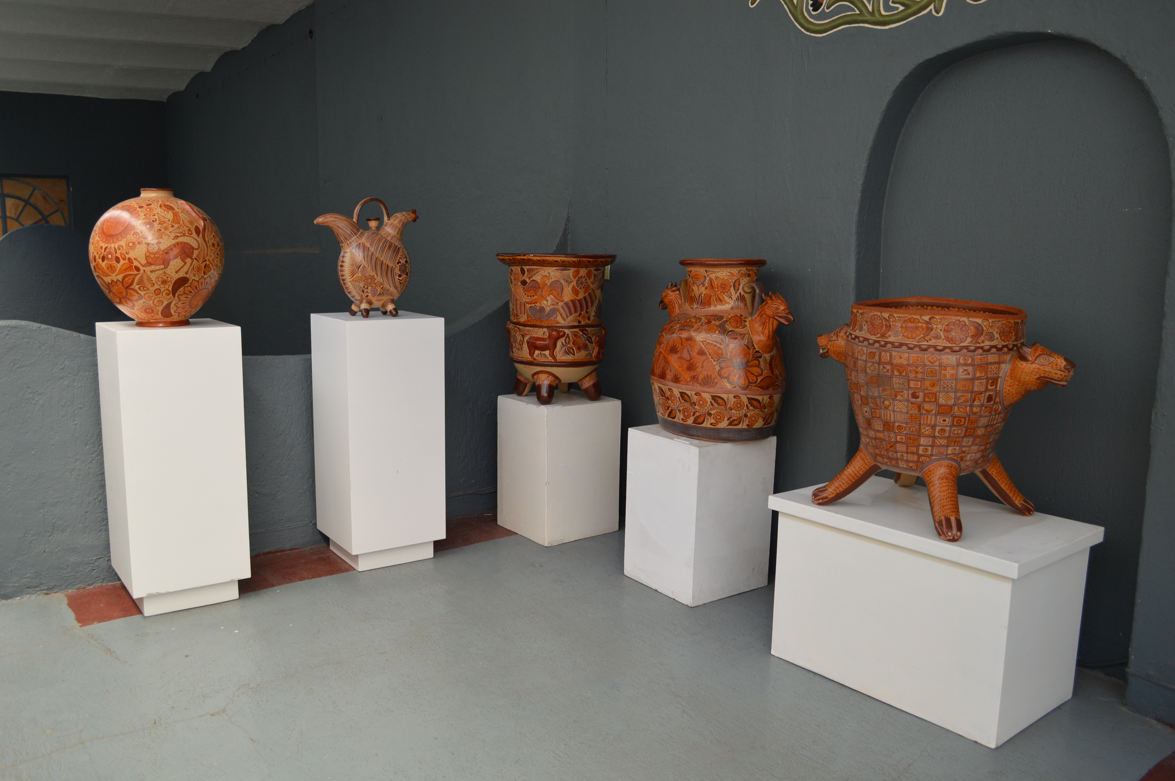 One of the exhibit halls at the Museo Nacional de la Ceramica in Tonala, Jalisco, Mexico